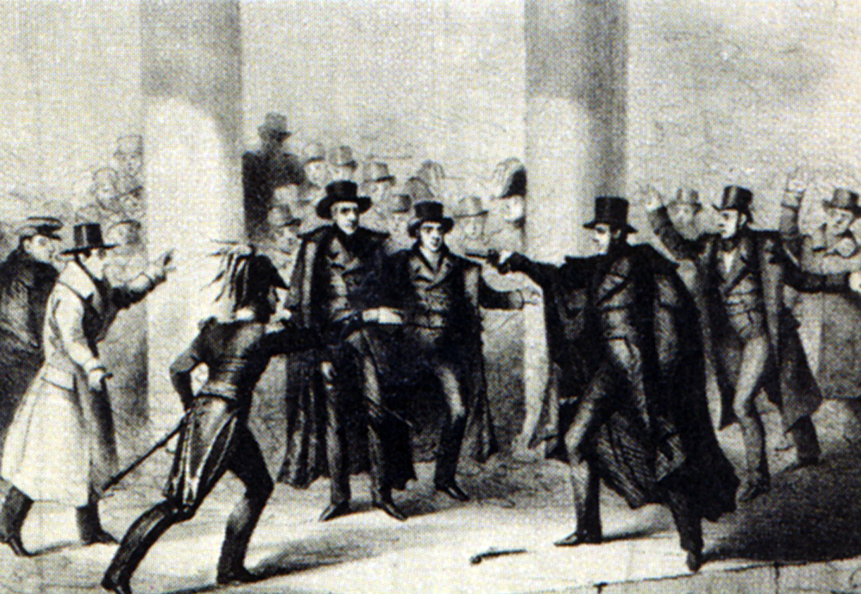 The etching of the 1835 assassination attempt of Andrew Jackson. Public domain. from here